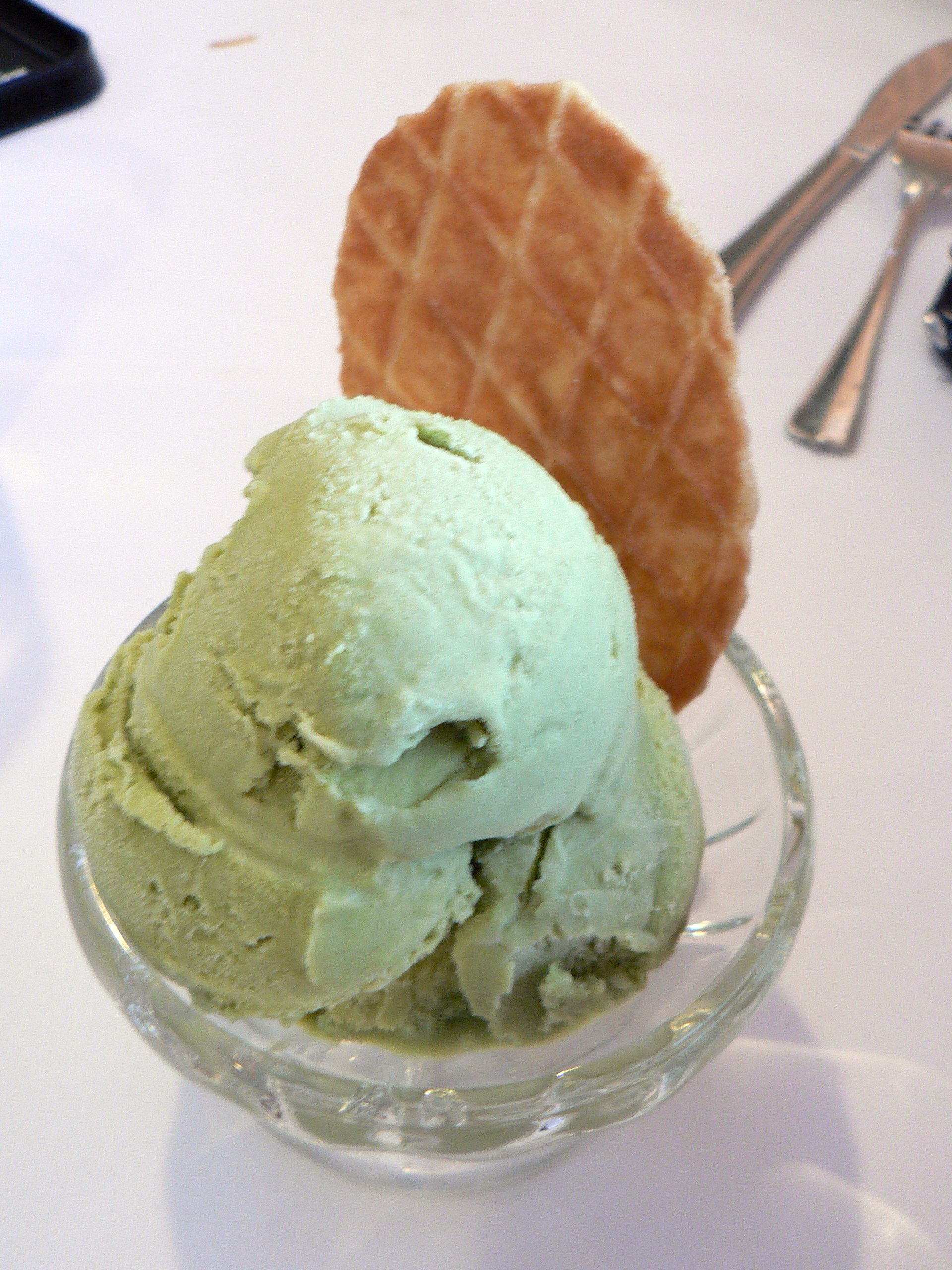 green tea ice cream from the Siam Cafe in Cleveland, Ohio, United States